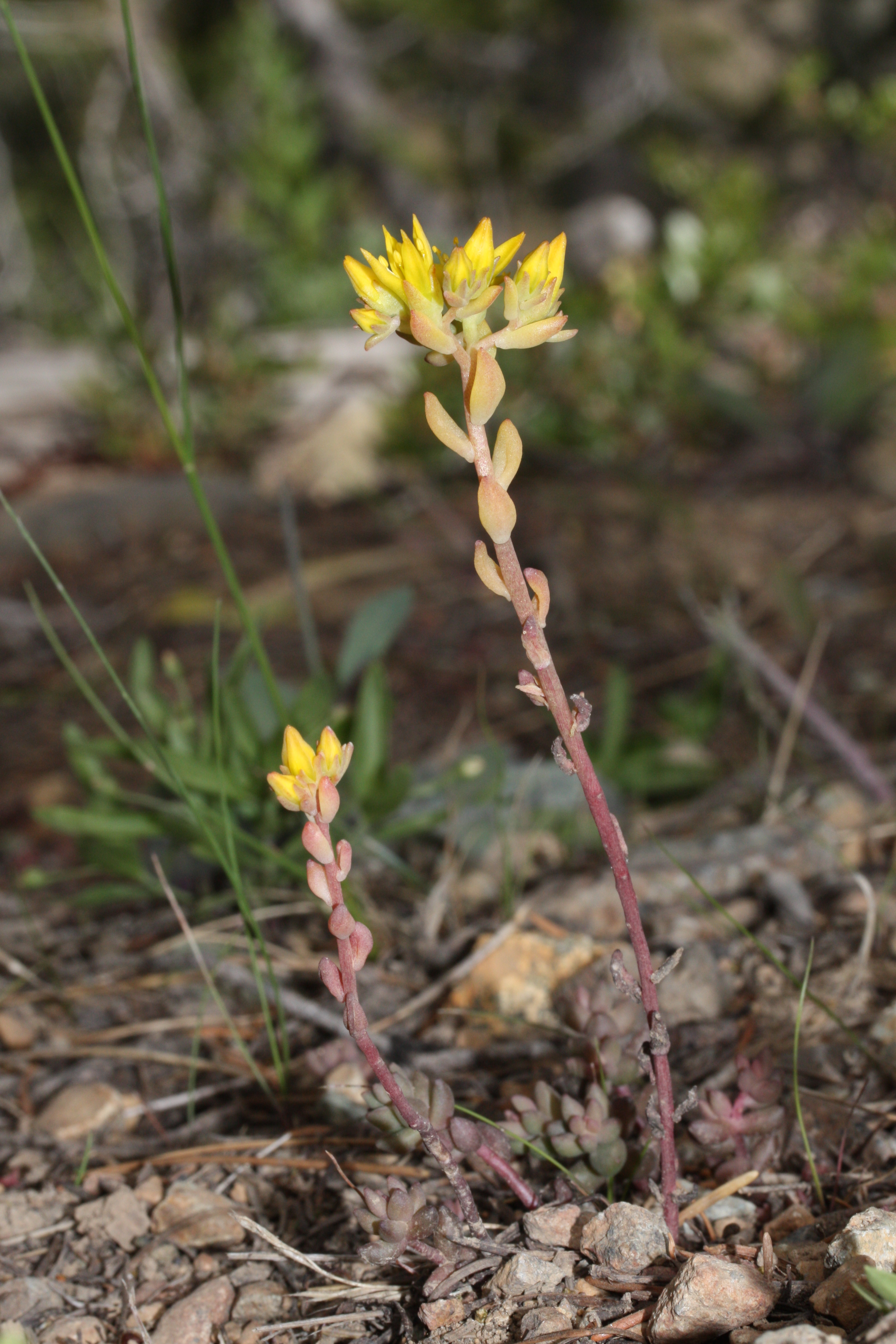 Curvedleaf Stonecrop, Lance-leaved Stonecrop